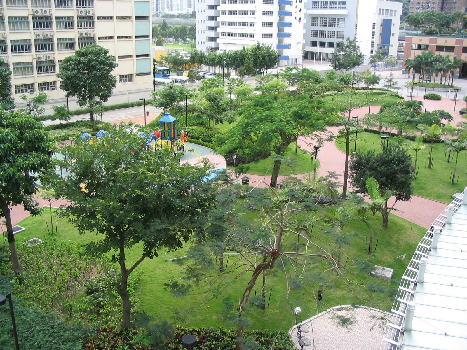 愉翠苑已拆卸的D座及E座原址，目前重建為一個小花園 Demolished Block D & E of Yu Chui Court, now it is reconstructed as a garden.